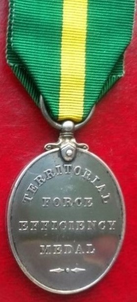 British award for 12 years service in the Territorial Force, awarded from 1908-21